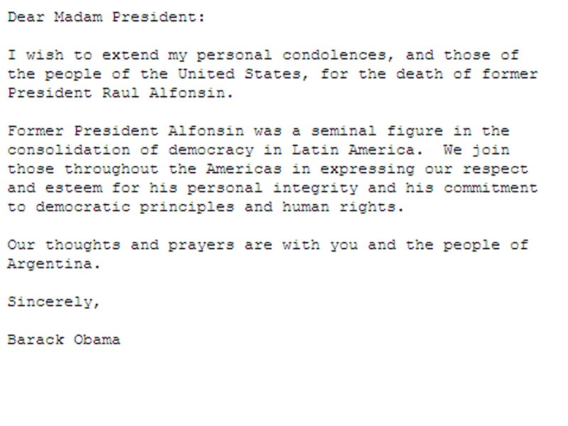 U.S president Barack Obama sends his condolences to Argentine president Cristina Fernández due to the death of the former argentine president Raúl Alfonsín